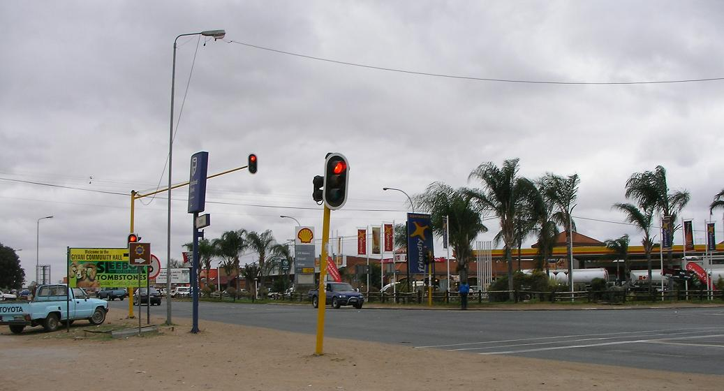 Traffic light in Giyani, South Africa at 4:08 PM local time. A large supermarket and strip mall is to the right of the photo.